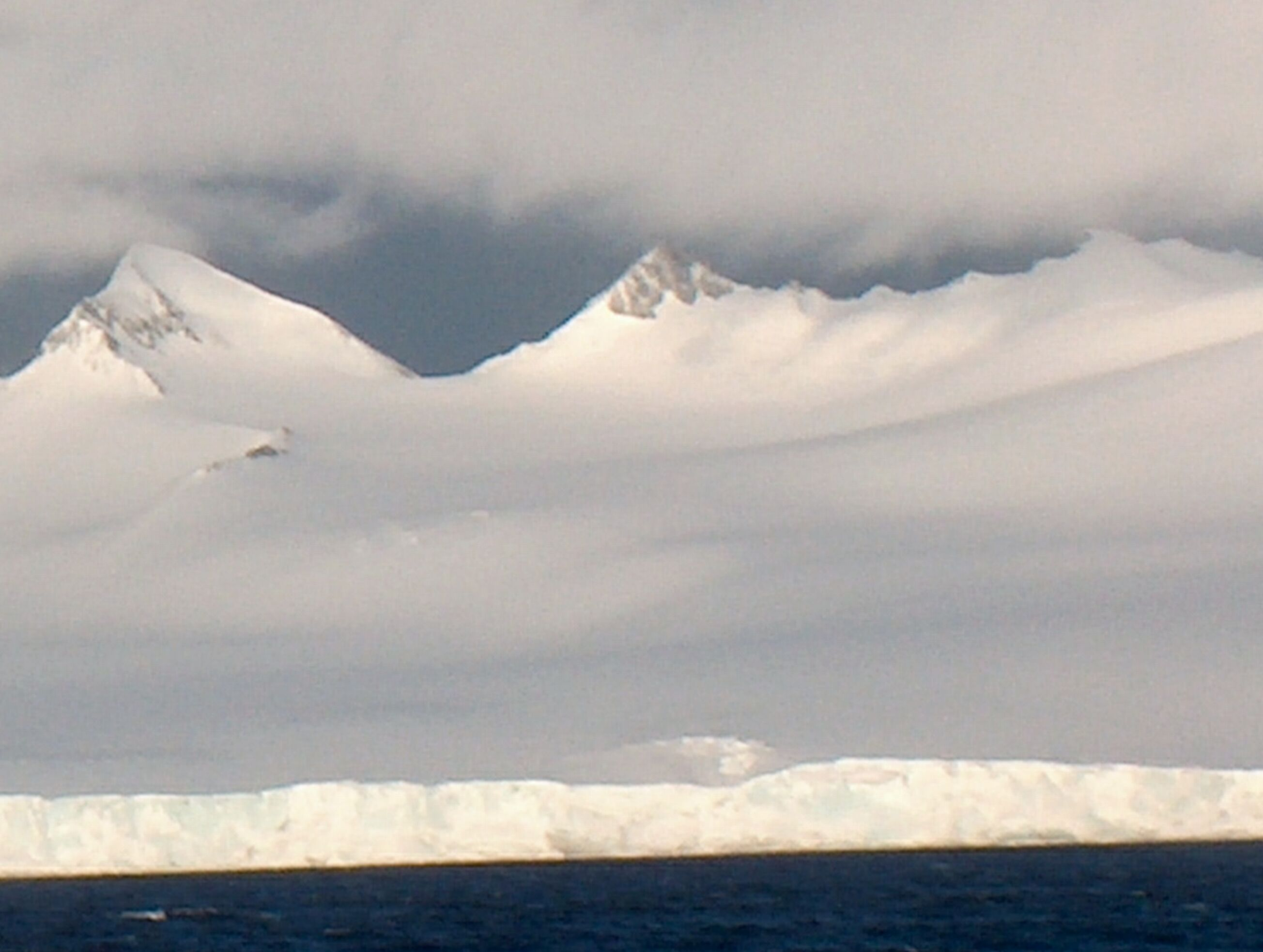 Author: Lyubomir Ivanov Source: the author - Gabrovo Knoll